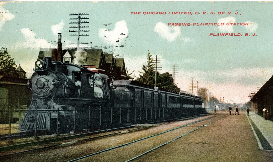 Plainfield, NJ ca. 1900